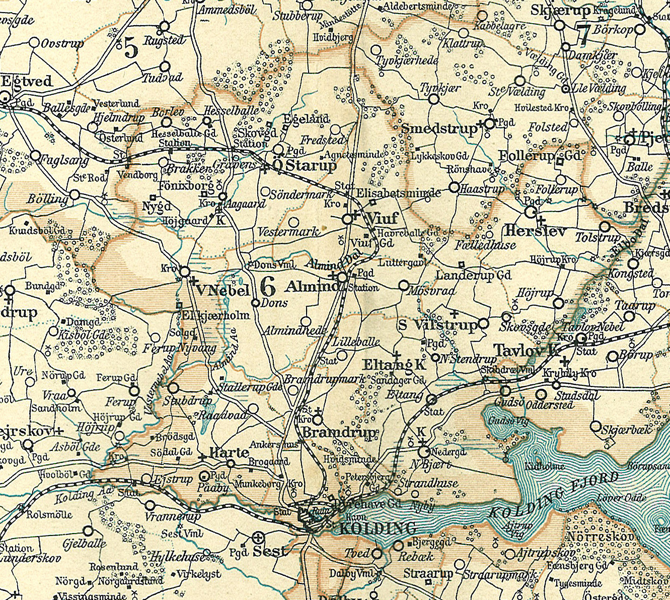 Map of Brusk Herred in Vejle County in Denmark